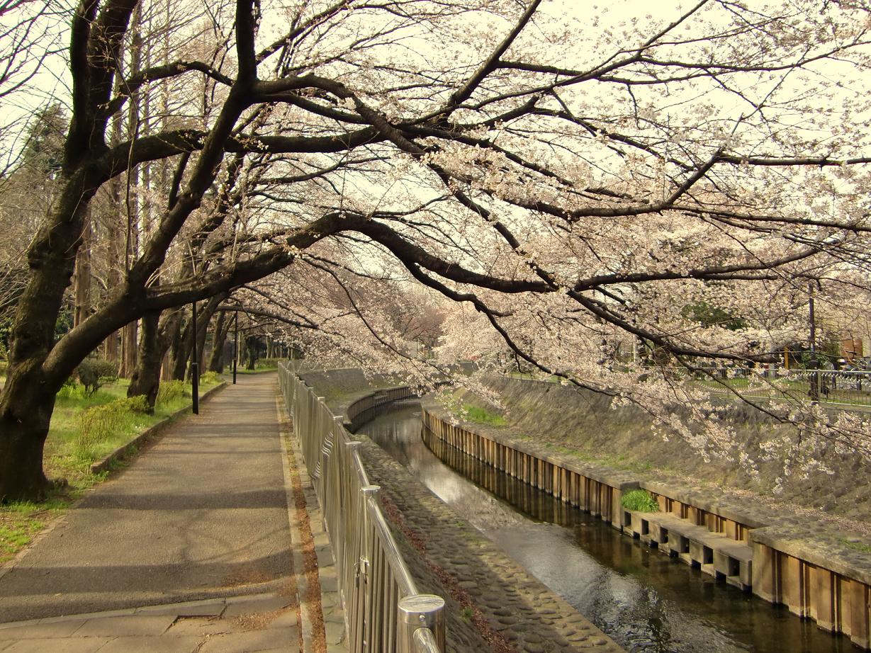 Zenpukuji Koen Park in Suginami, Tokyo.